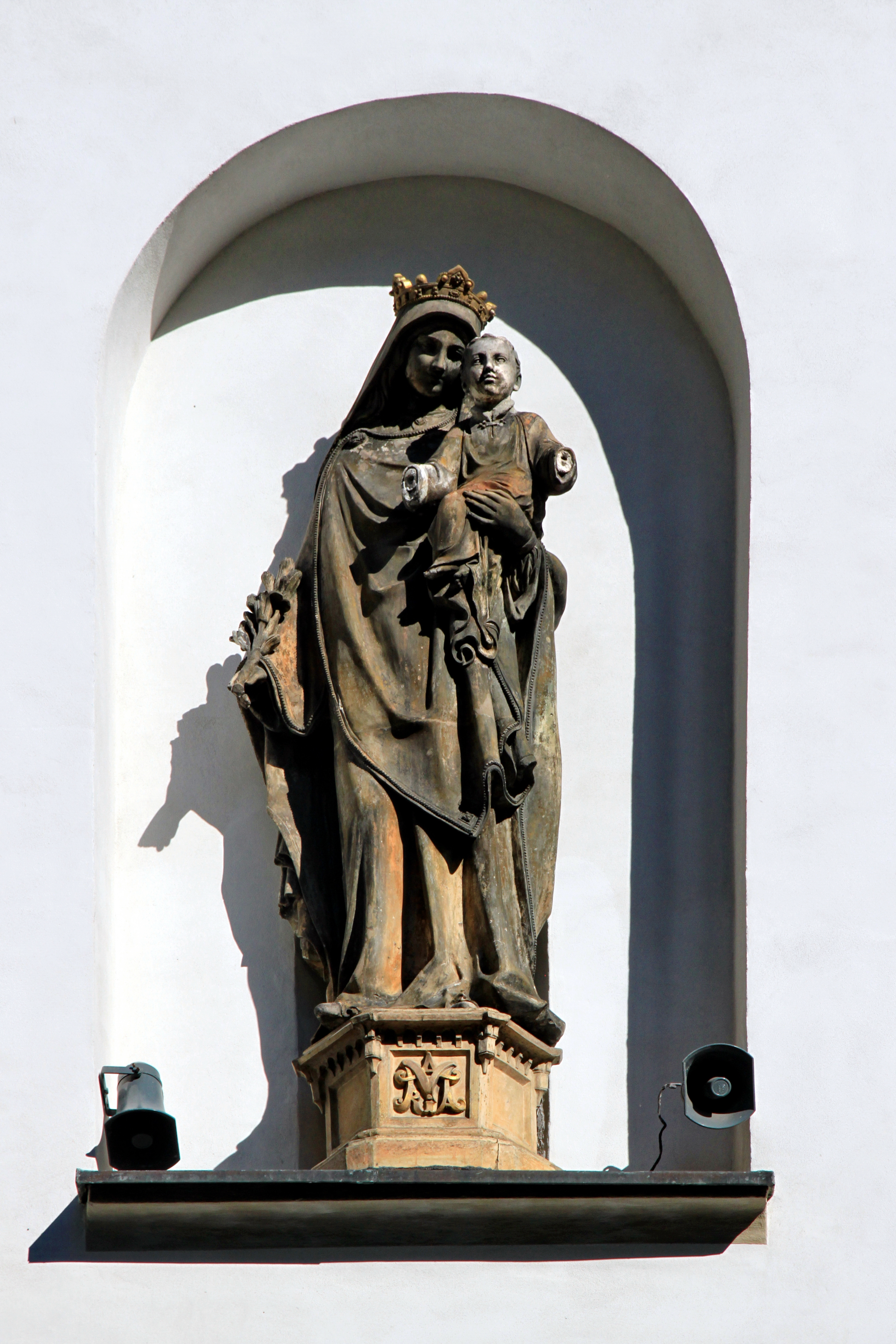 Rybnik, academic church of the Assumption of Mary, build in 2nd half of 15th century, 1797. Statue of Madonna and Child.